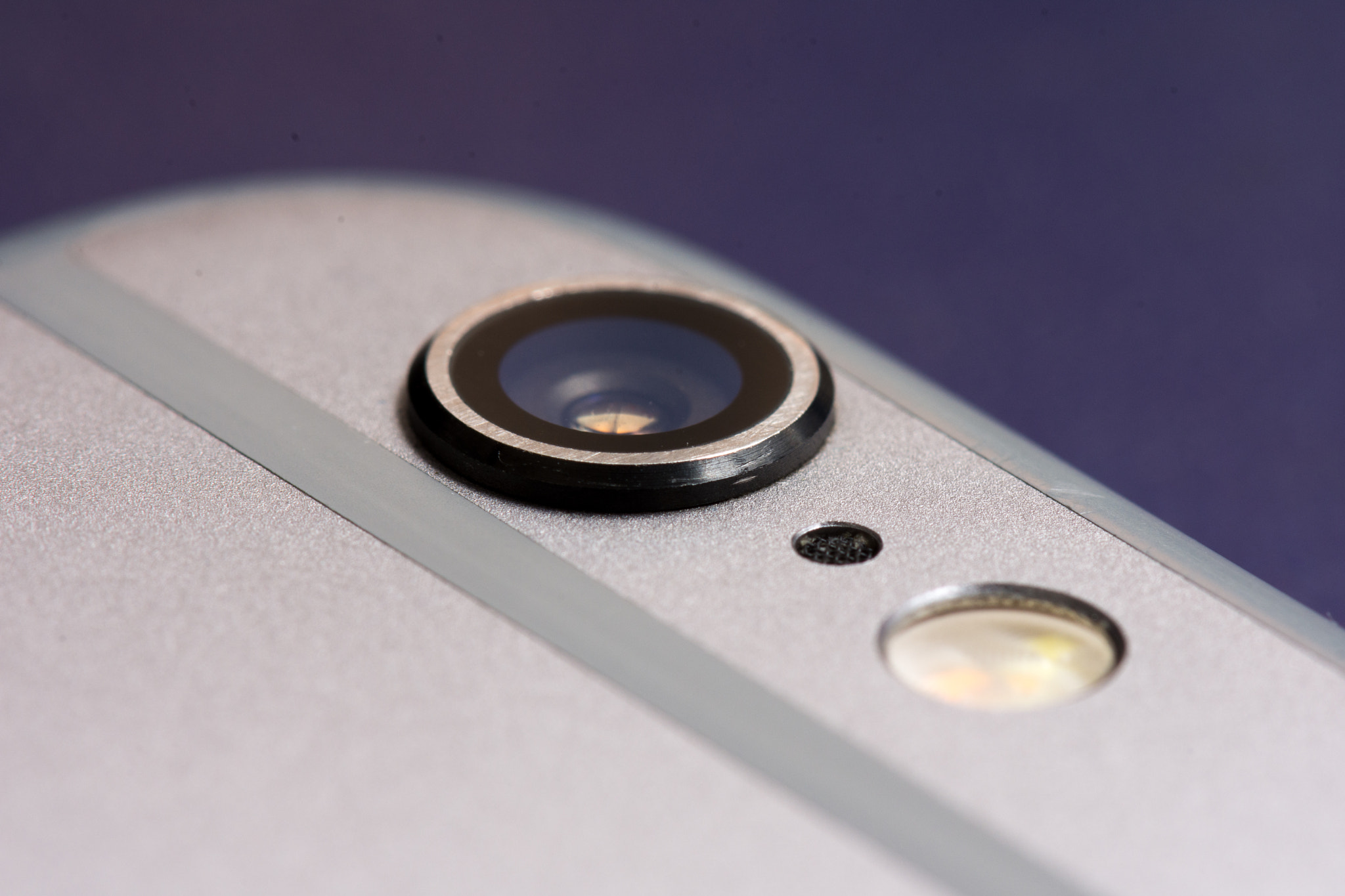 500px provided description: 88 105 Iphone 6 [#macro ,#closeup ,#camera ,#gray ,#phone ,#space ,#flash ,#microphone ,#105mm ,#smart ,#iphone ,#cell ,#6 ,#technology ,#aluminum]